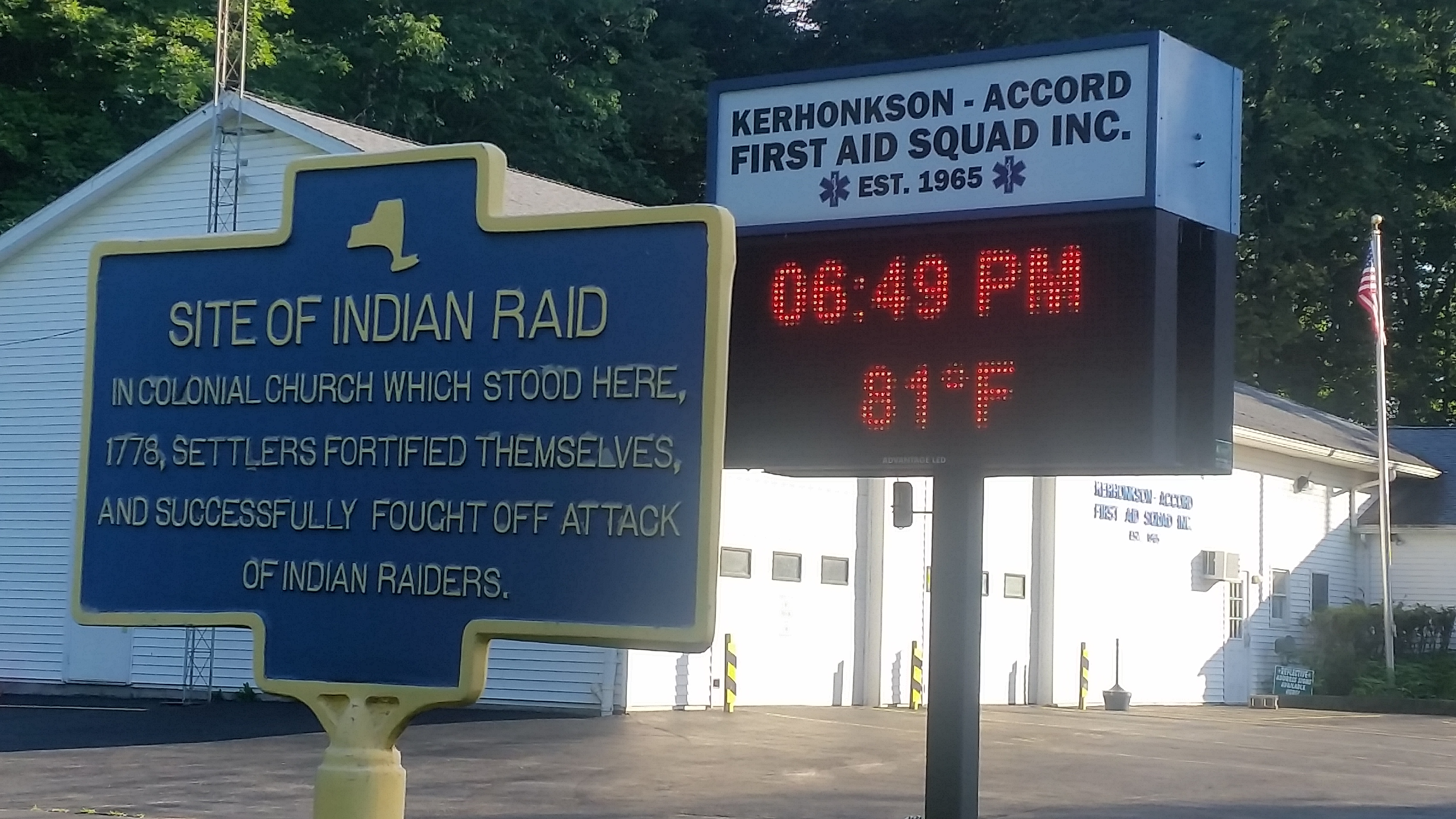 NY State historical marker for the site of an Indian (sic) raid